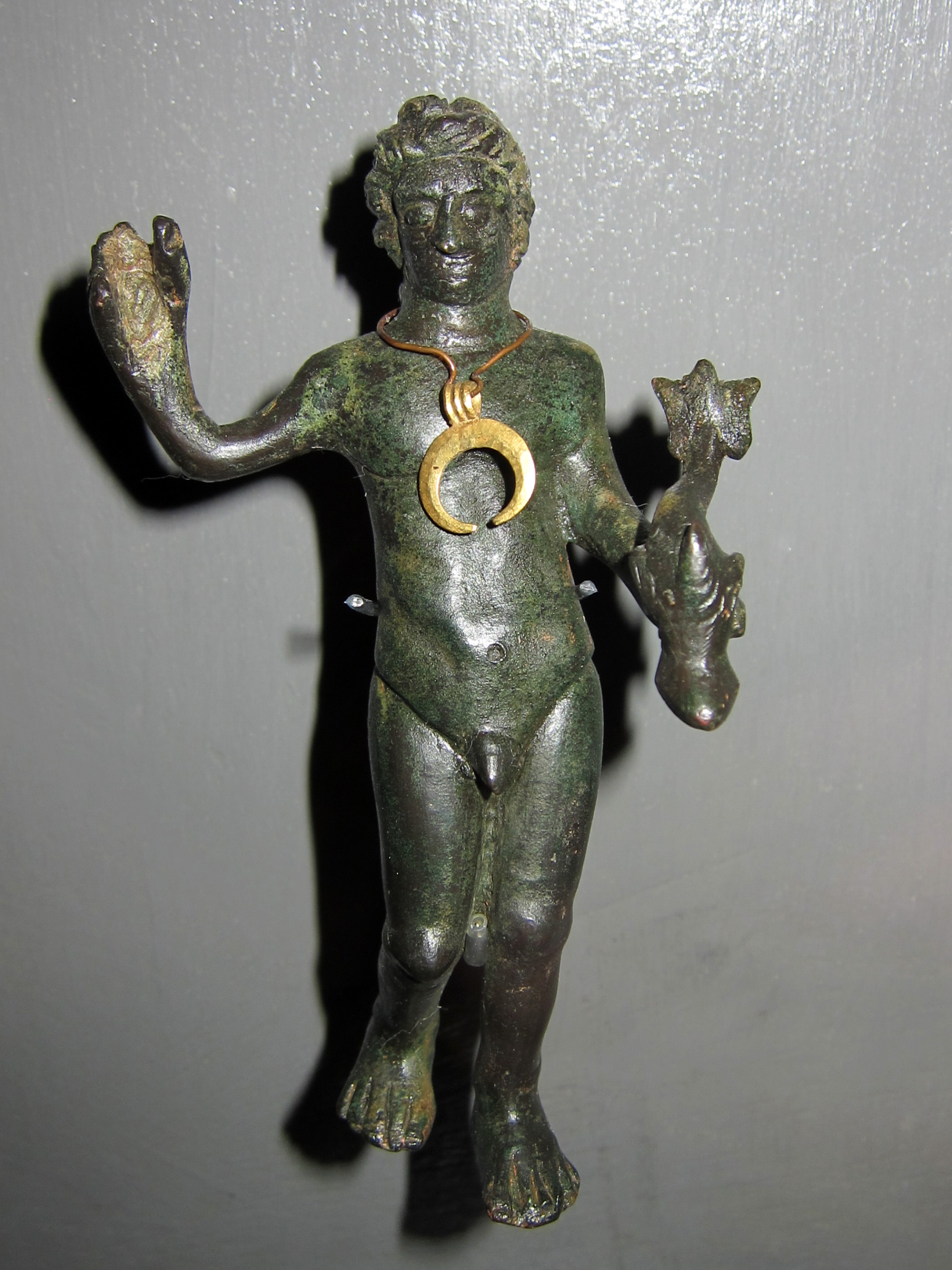 Museum of Prehistory and Archaeology of Cantabria. Figure of a young Neptune from hill fort of Monte Cueto (Castro Urdiales, Cantabria).